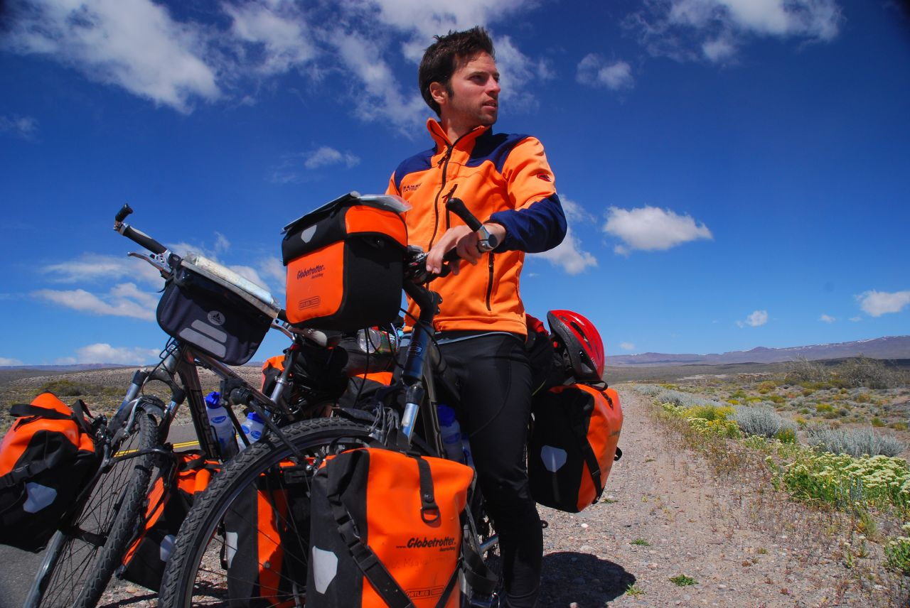 Bicycle touring in Patagonia.